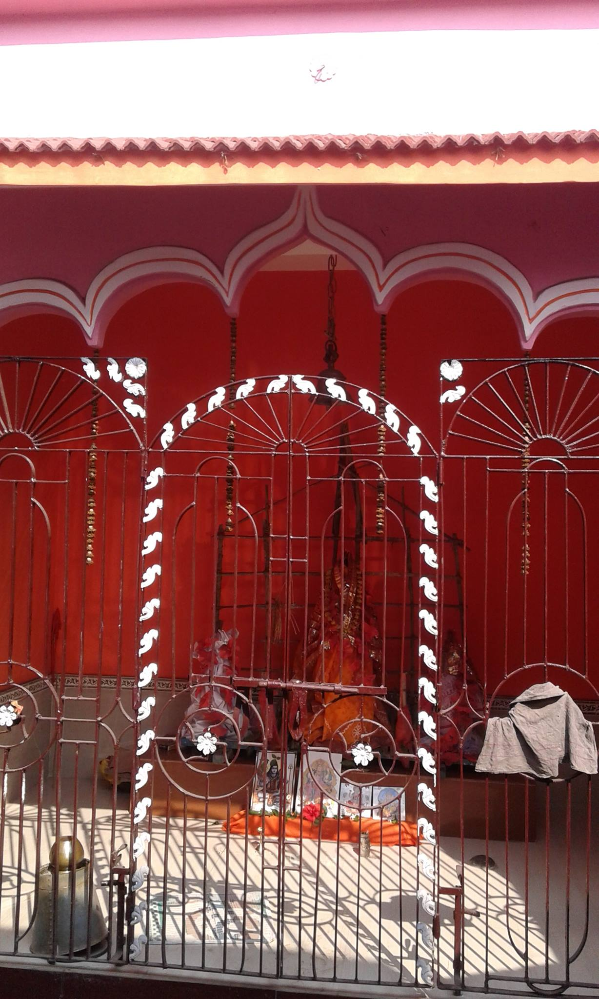 Manasa is a hindu Godess.